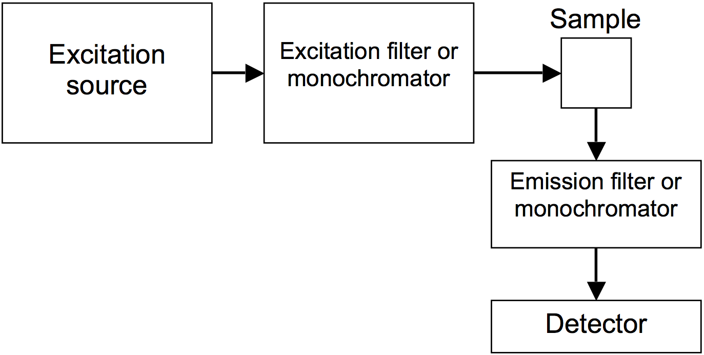 A typical Fluorimeter as used in fluorescence spectroscopy.